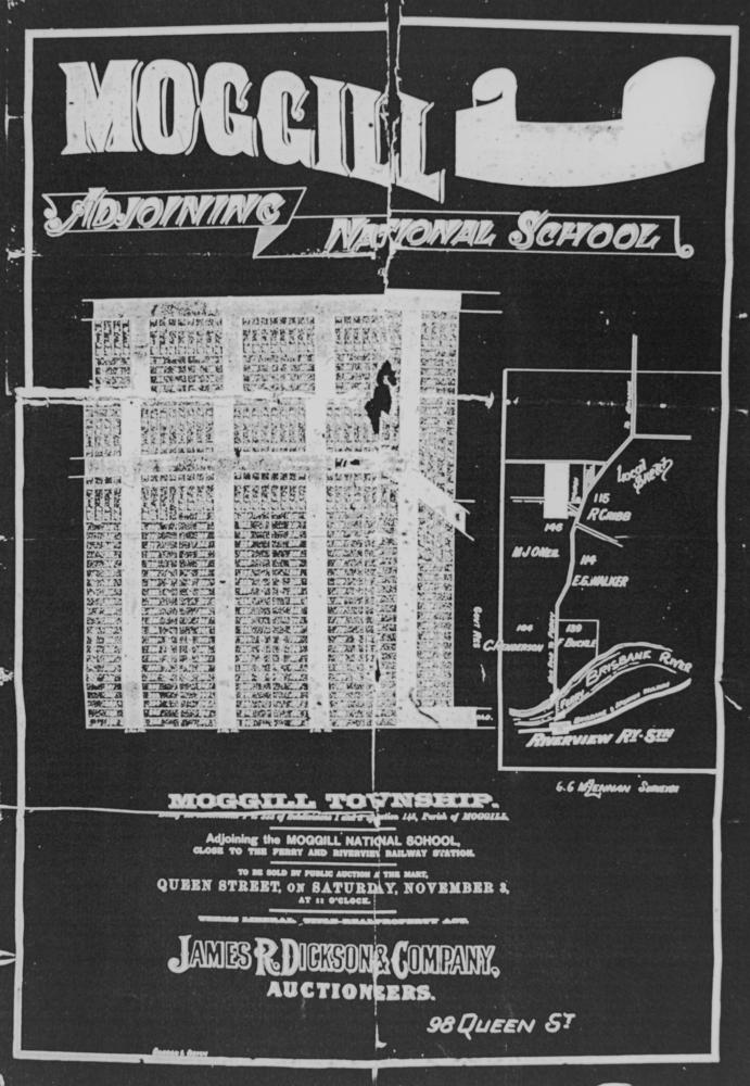 Estate map for sale of land in Moggill, 1888 Moggill estate map for a land sale by public auction on Saturday, 3rd November 1888 at 11 o'clock. A local sketch shows the situation of the housing blocks. The land is advertised as adjoining the National School and being close to the ferry and railway station.